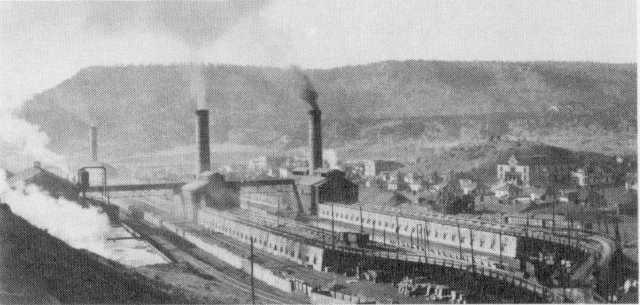 The 'Coke Ovens' of Dawson, New Mexico, Now a ghost town. Taken in 1920.